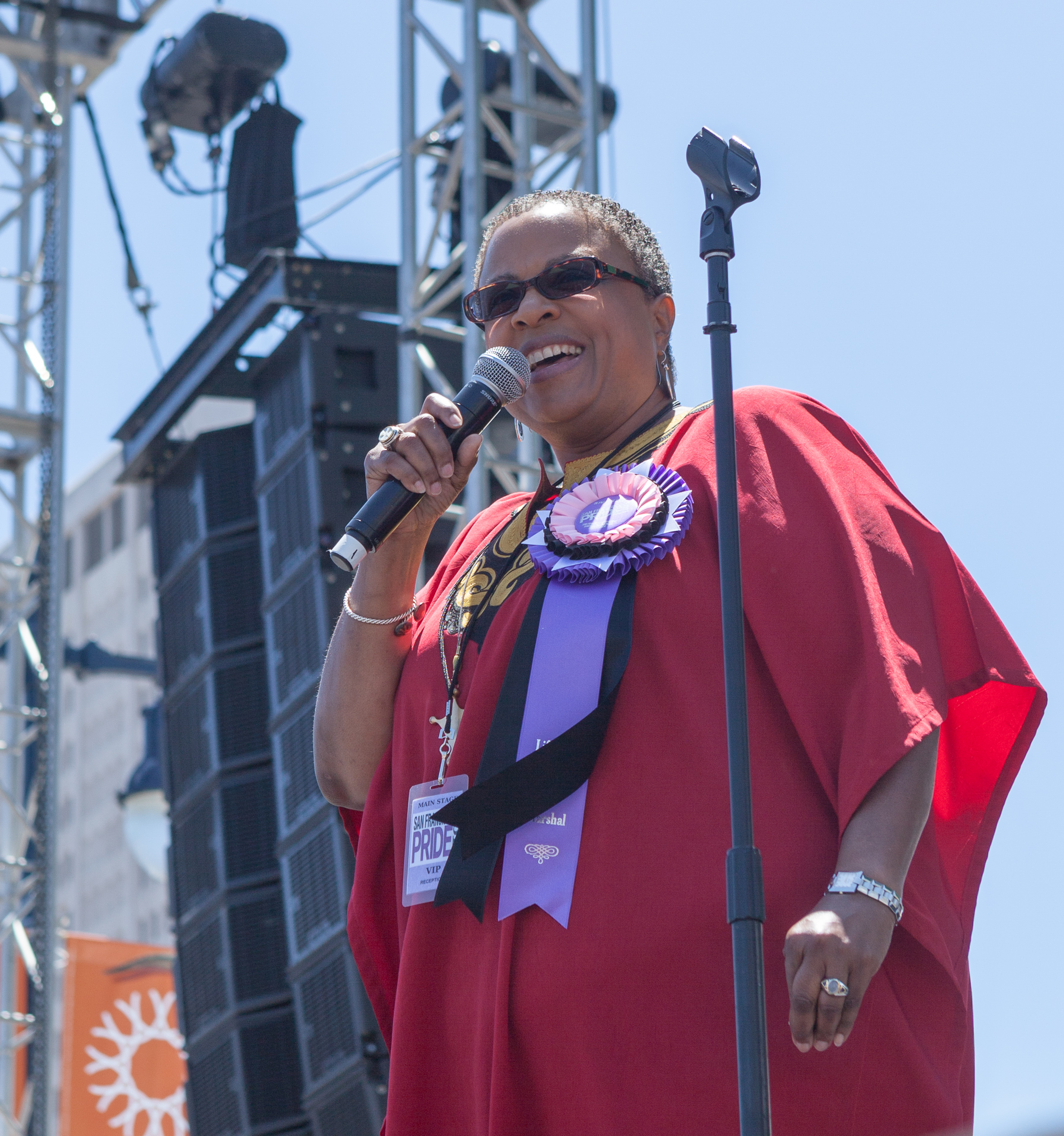 Bishop Yvette Flunder at the 2011 San Francisco Pride celebration.